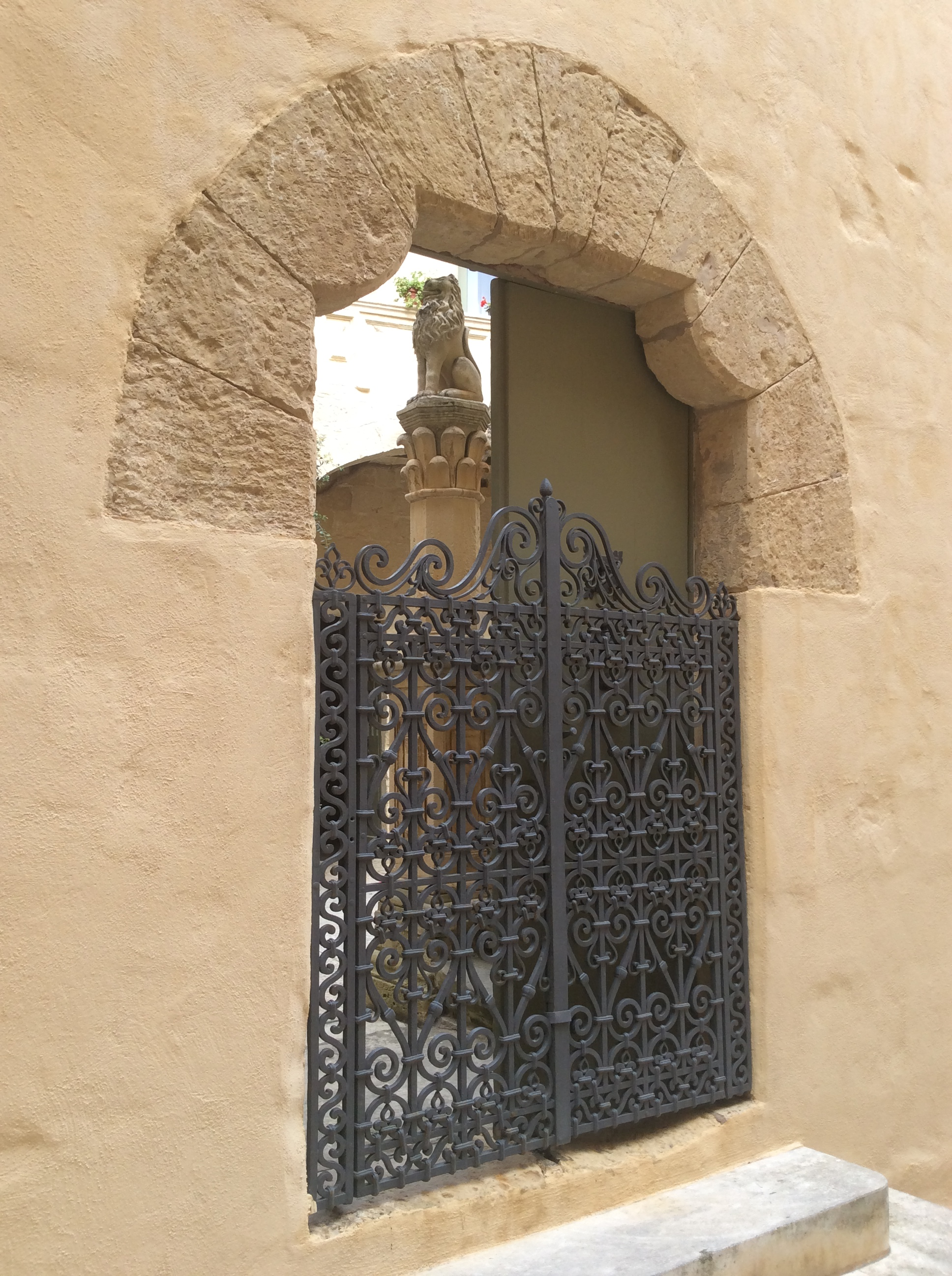 Palazzo Falzon and Garden This media is about Maltese cultural property with inventory number 01193.